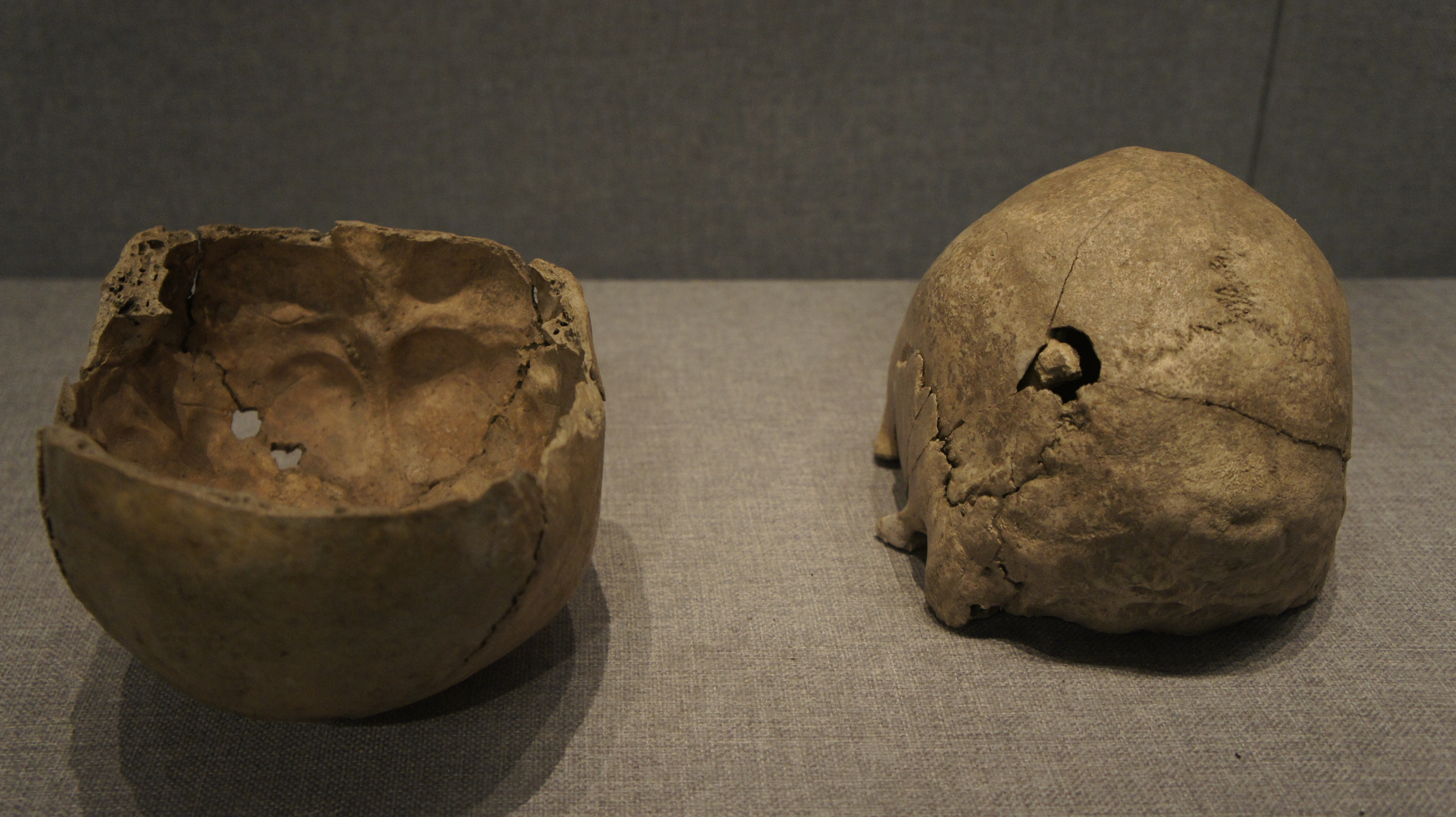 Human skull cup evacuated from Zhengzhou Shang City at Erligang (二里岡文化) (1600 – 1400 BC) Site.